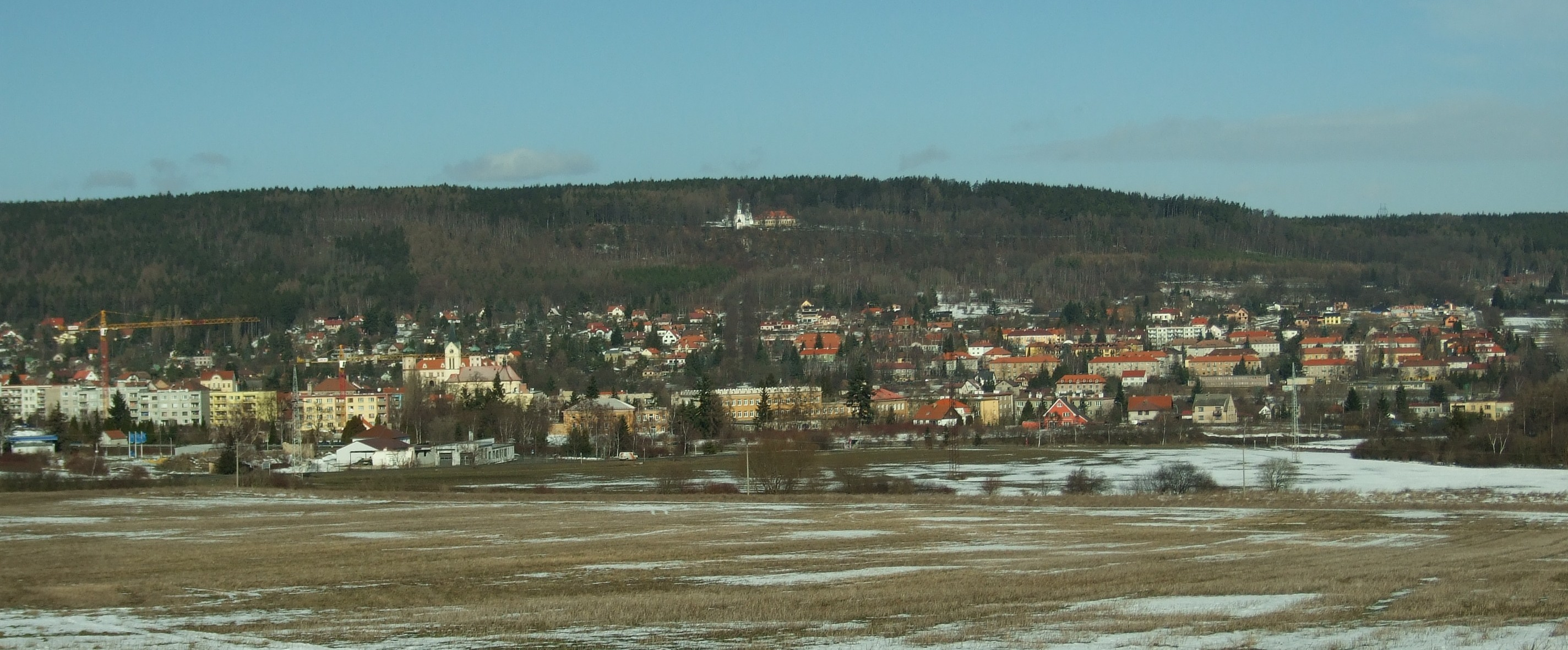 Mníšek pod Brdy seen from the town's train station, Central Bohemian Region, CZ